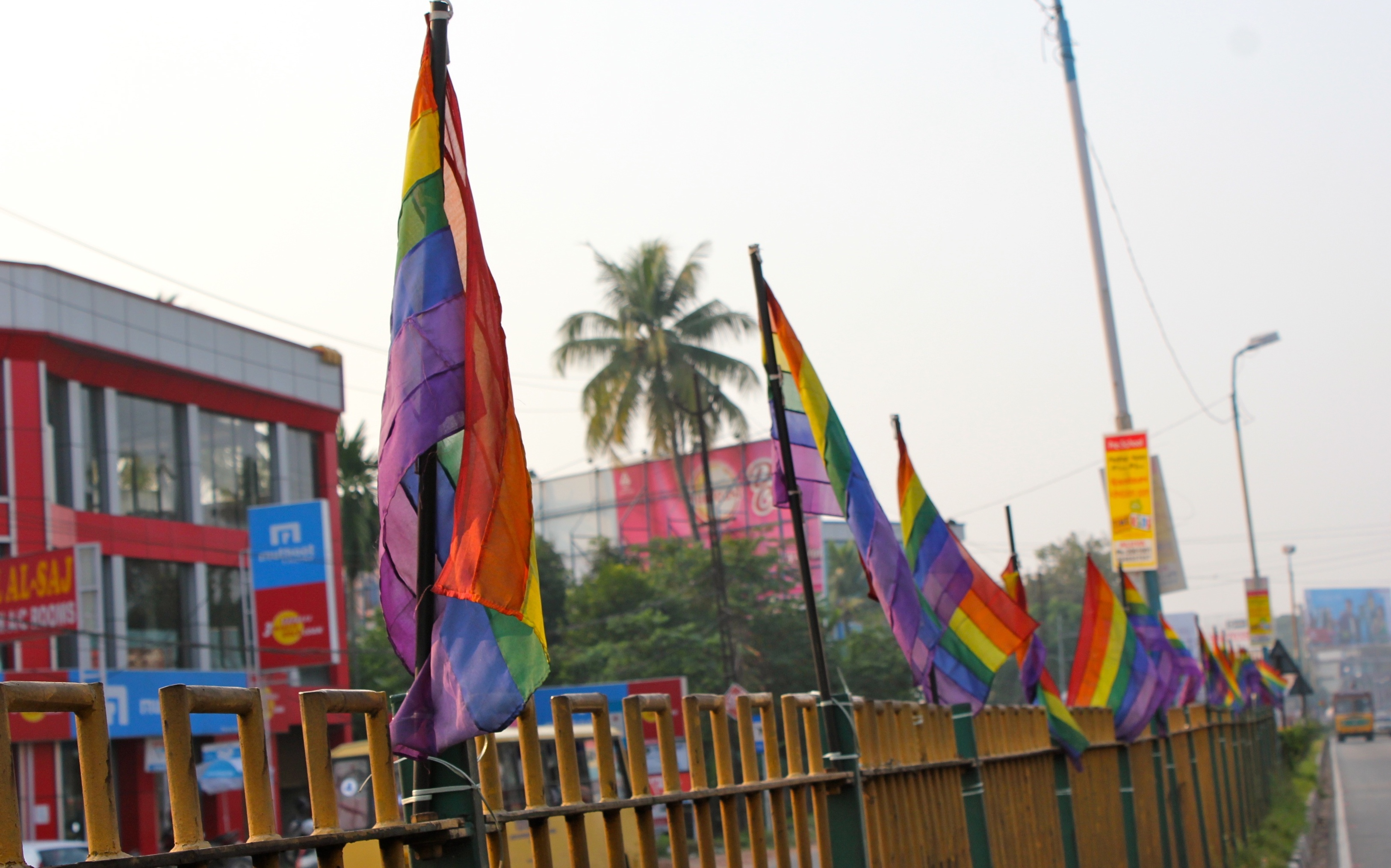 Nov '12.